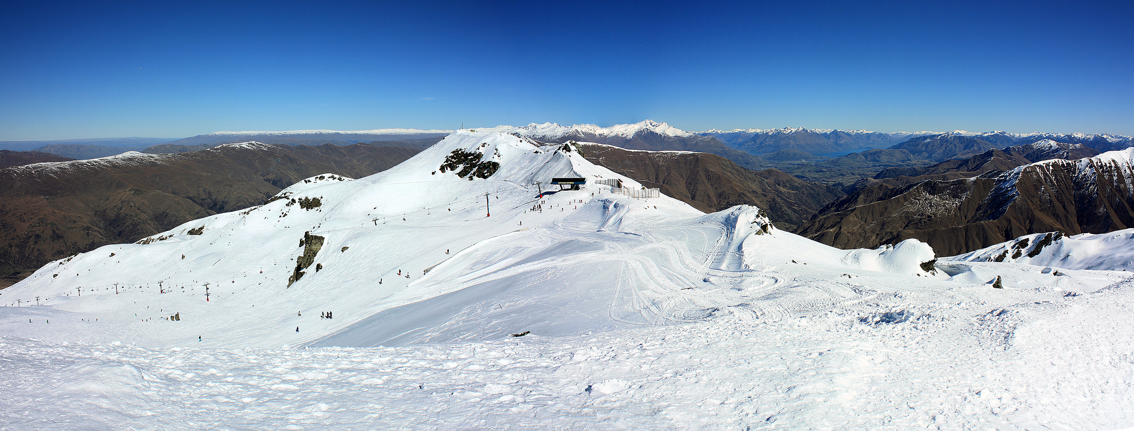 Captains Basin during ski season looking towards Queenstown on the right and the Cardrona valley on the left.The Captains Basin chairlift is in the centre